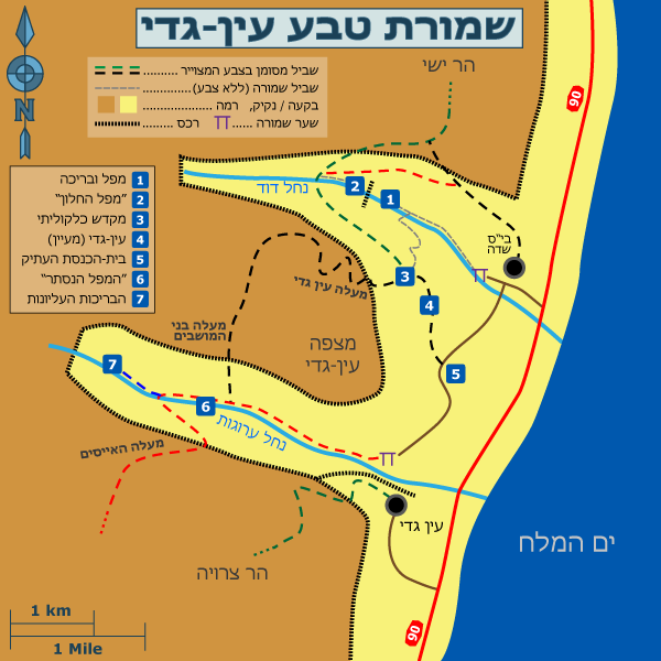 For English version, see File:Ein Gedi Nature Reserve Scheme en.png.